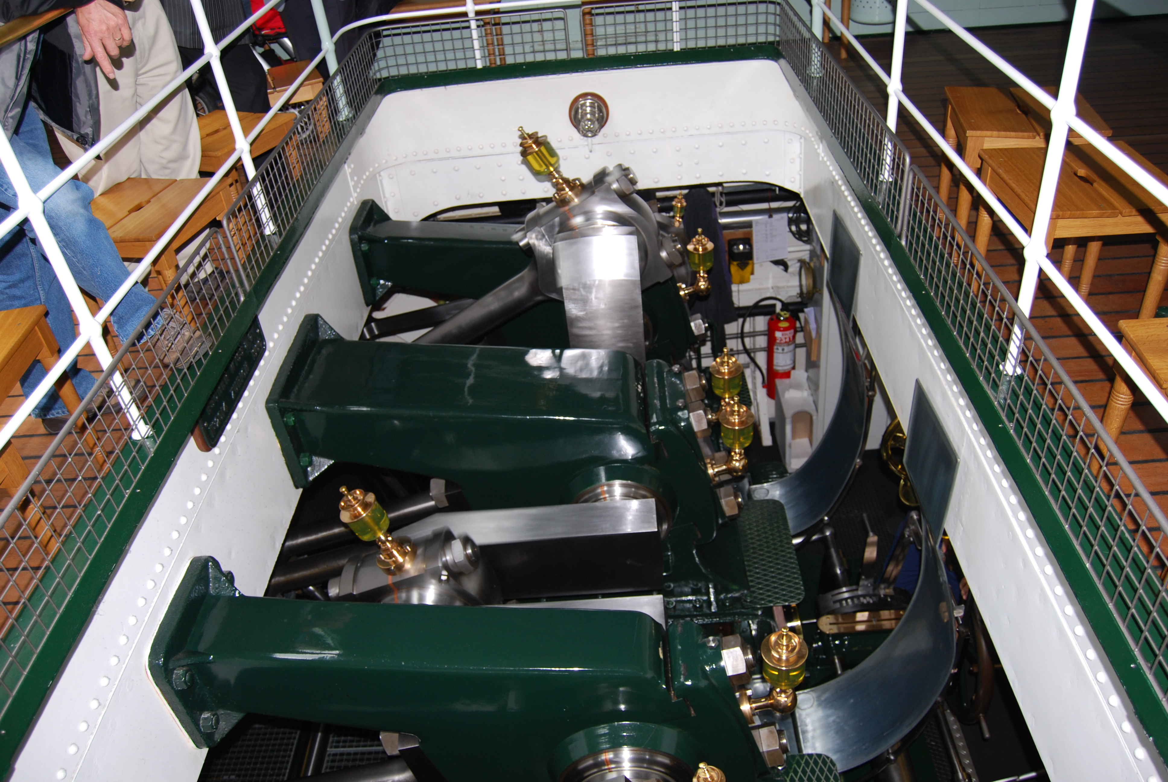 Steam ship Blümlisalp on Lake Thun, canton of Bern, Switzerland